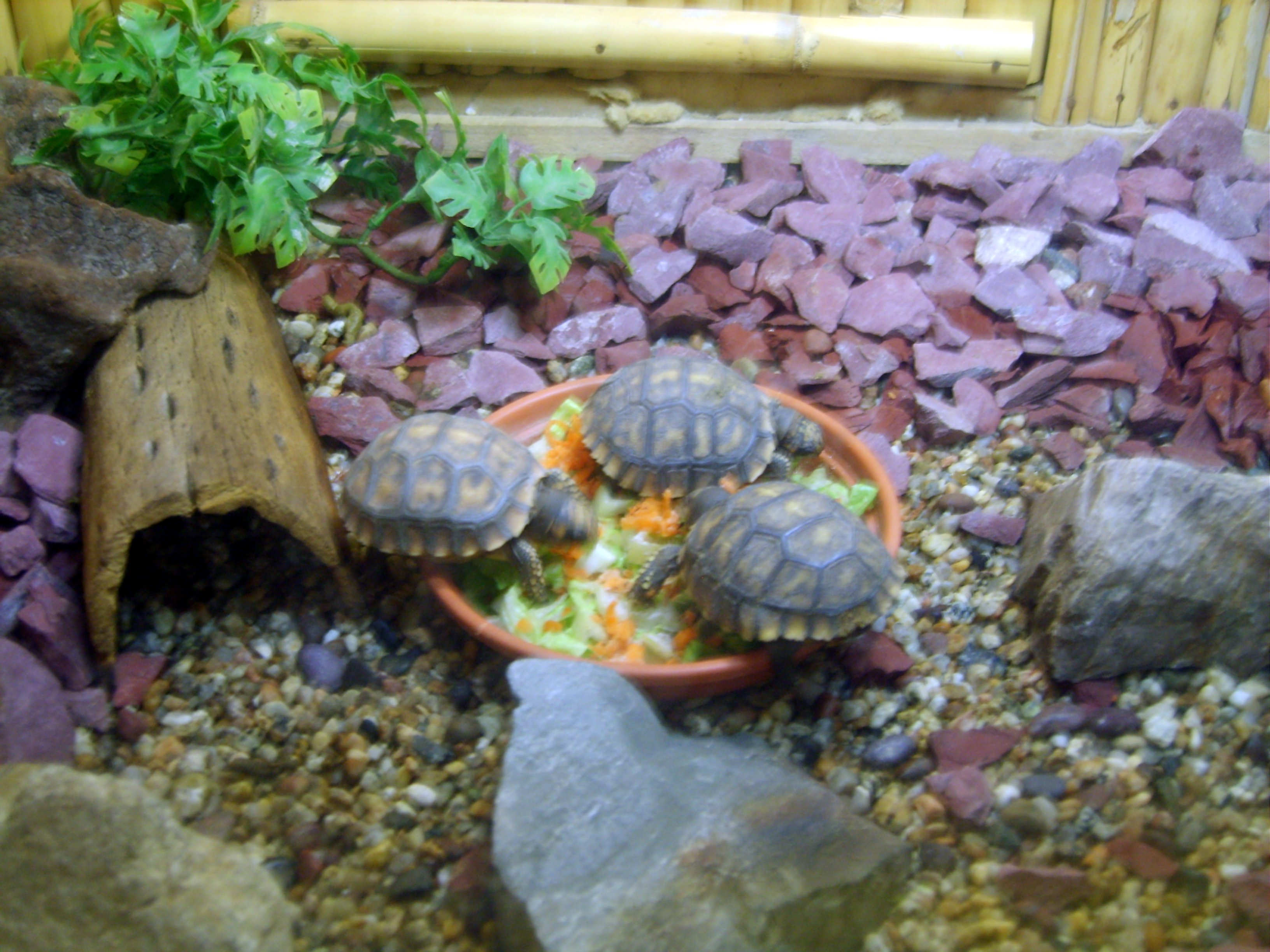 Brazilian Giant Tortoise